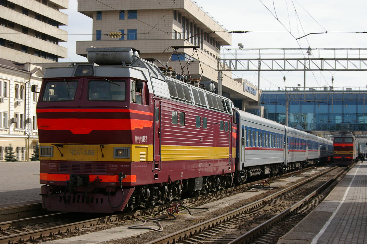 Railway station Rostov-Glavny, Rostov-on-Don.